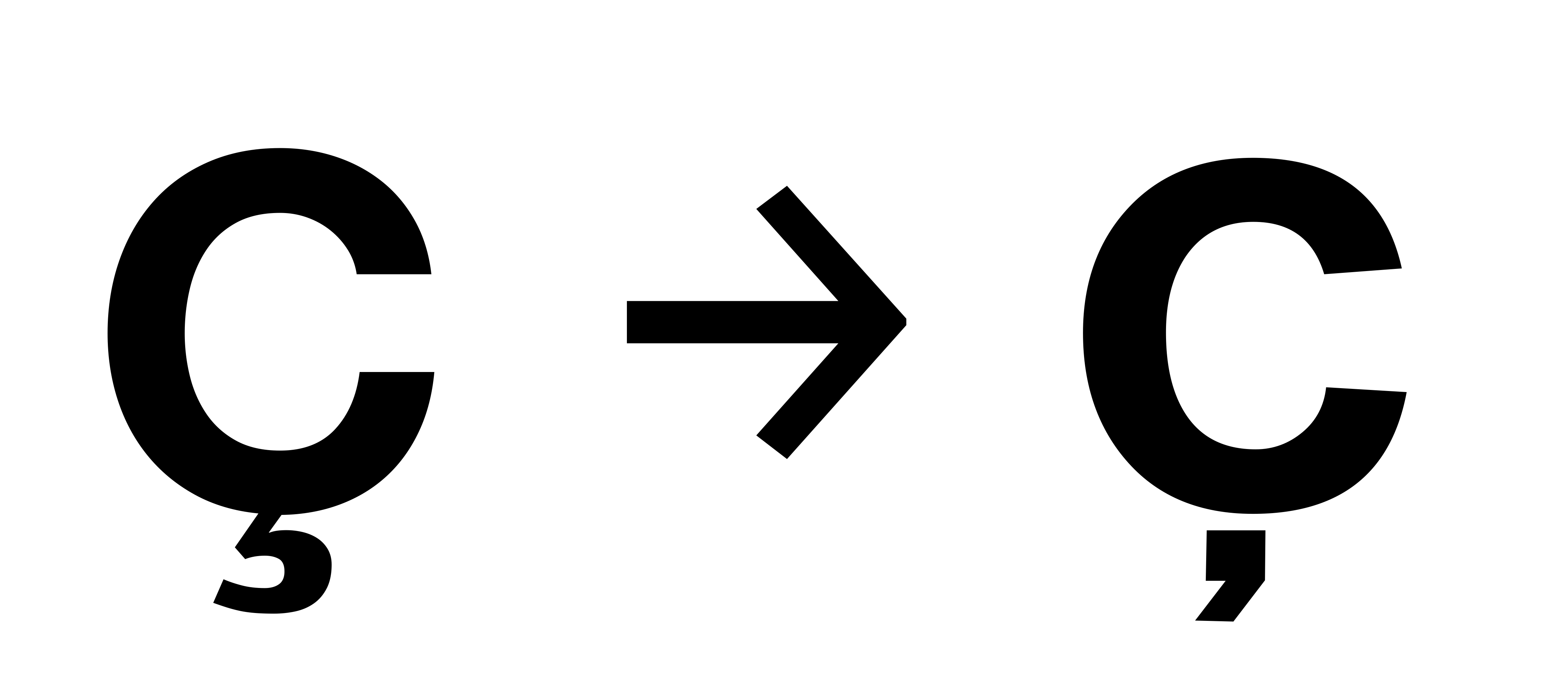 The traditional cedilla looks very uncomfortable on many realist sans-serif fonts since it looks quite calligraphic and slender. So some modernists (including Adrian Frutiger) preferred a beefier comma or accent-like design. Left: Helvetica with standard cedilla, right: Akzidenz-Grotesk Book with its modernist cedilla. URW Grotesk (not shown) has an interesting compromise between the two styles.